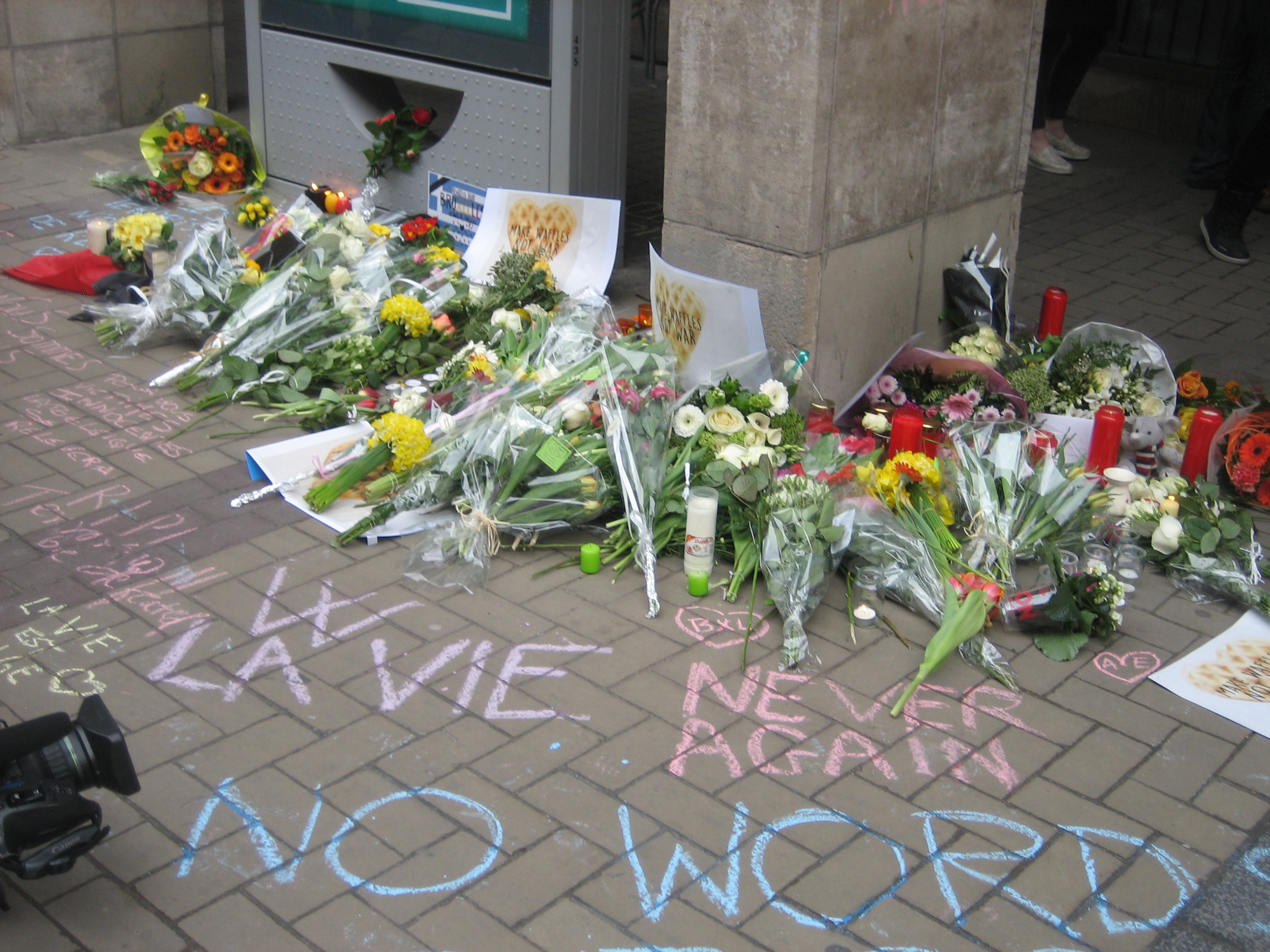 Entrance of Maelbeek/Maalbeek metro station at Rue de la Loi/Wetstraat: Flowers and inscriptions after March 2016 Brussels attacks